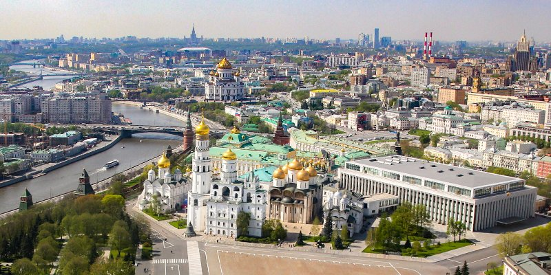 Panoramic view of Moscow